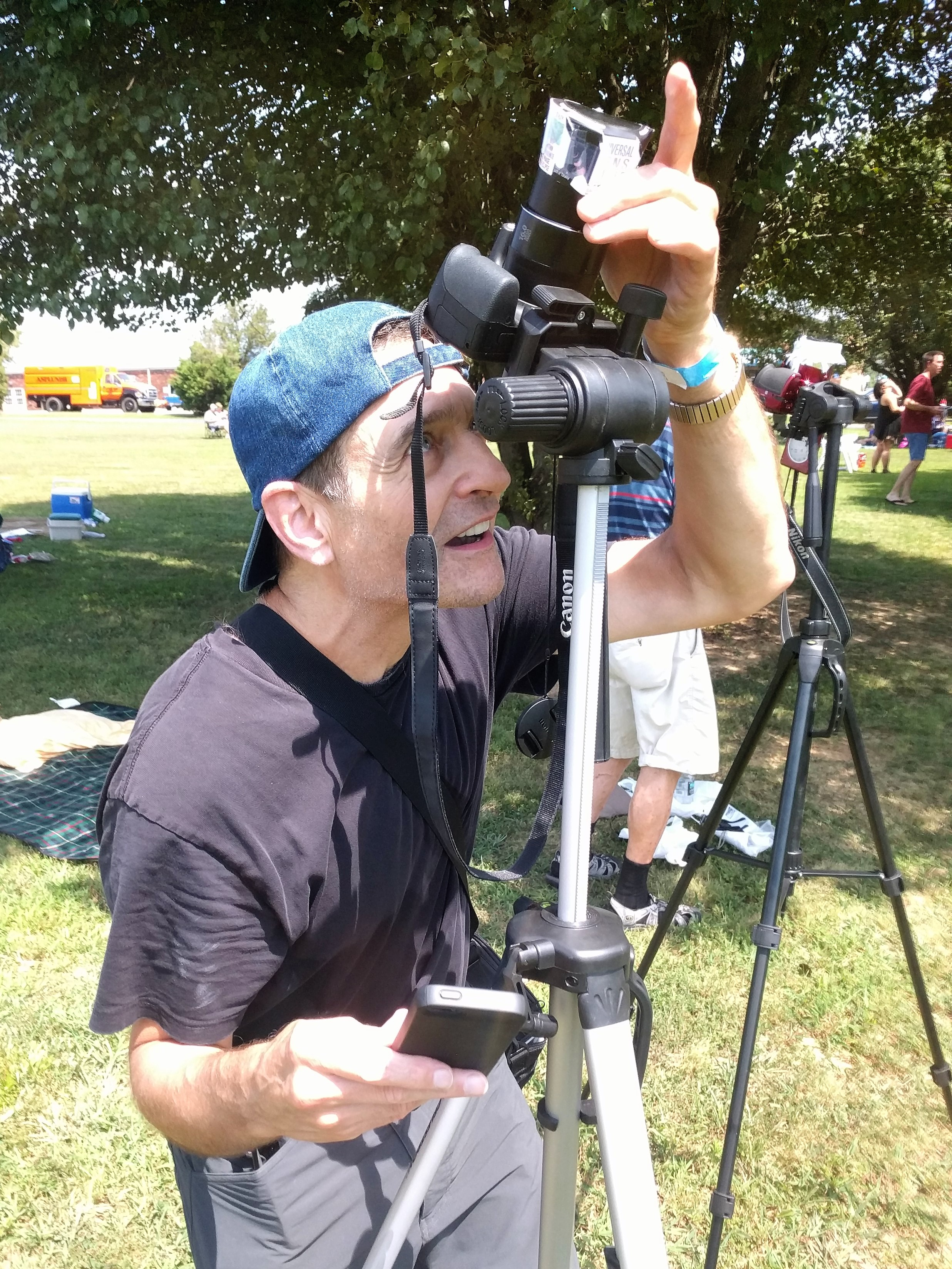 Looking east at eclipse photographer on a hot day